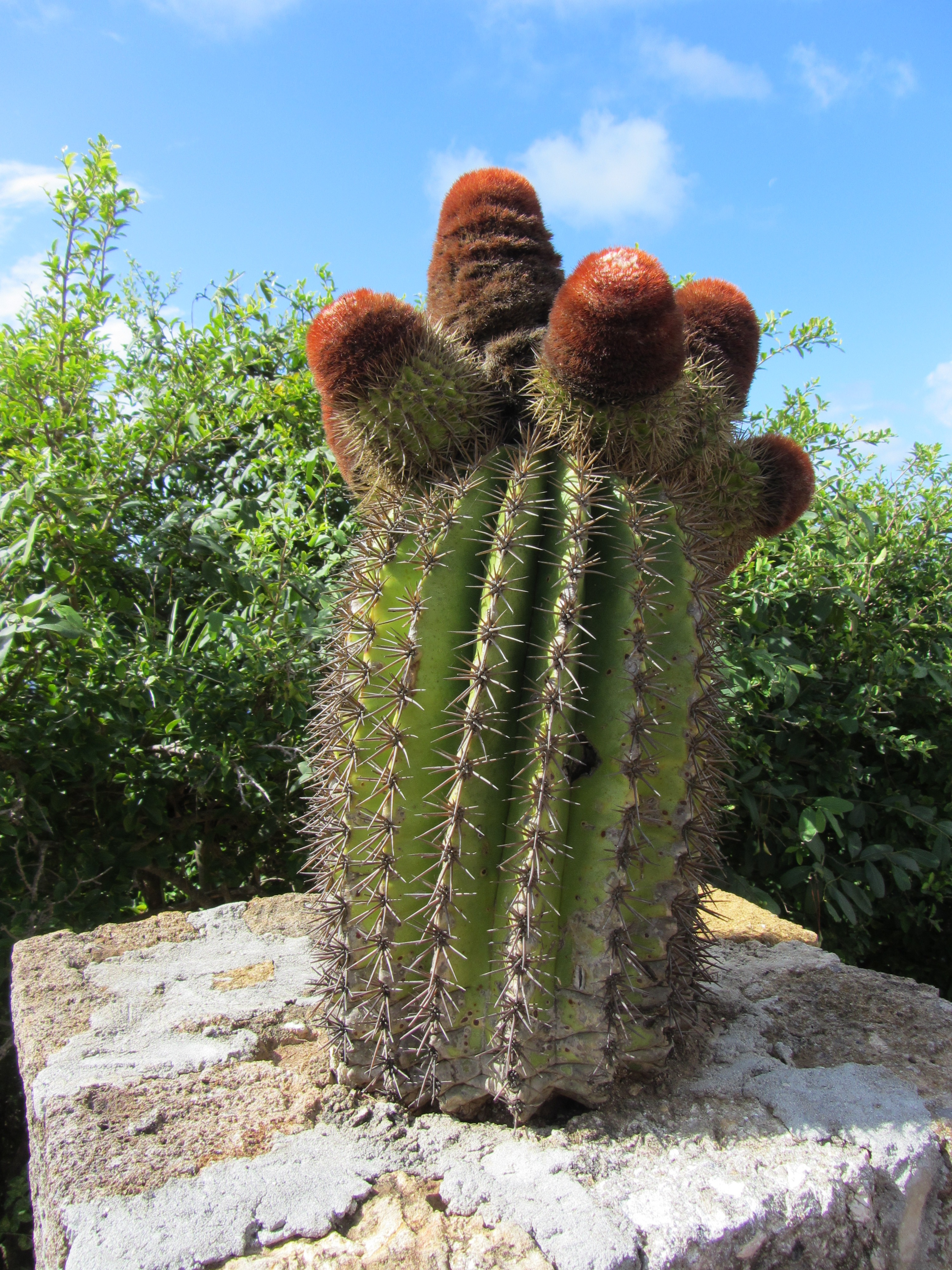 Barrel cactus or Turk's head cactus (Melocactus intortus) at Shirley Heights in Antigua